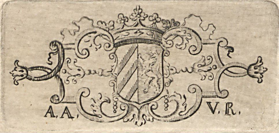 Albrecht Andreas von Ramdohr, Exlibris um 1720